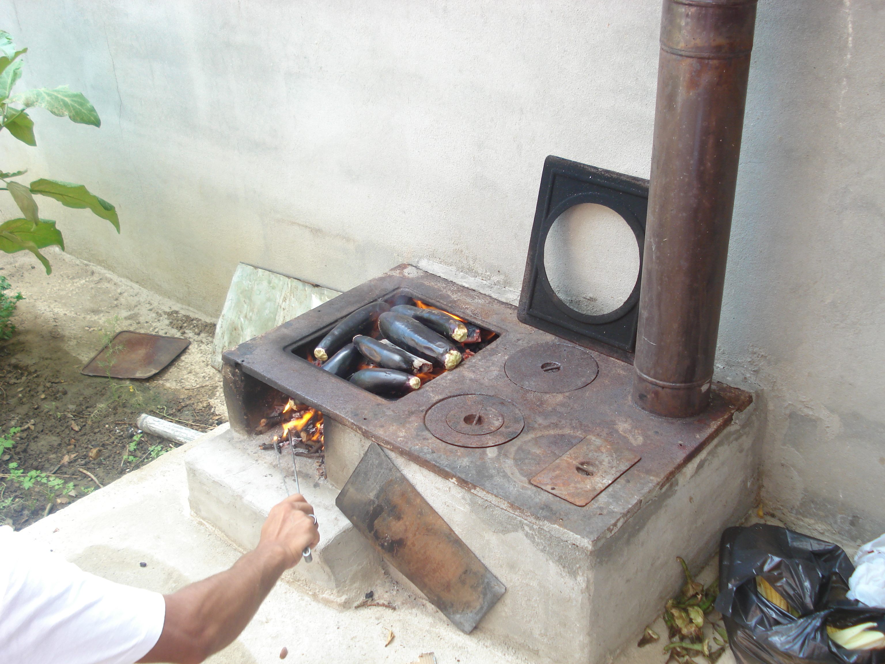 A kind of stove called maşınga (kuzine) to cook in Turkish rural cuisine